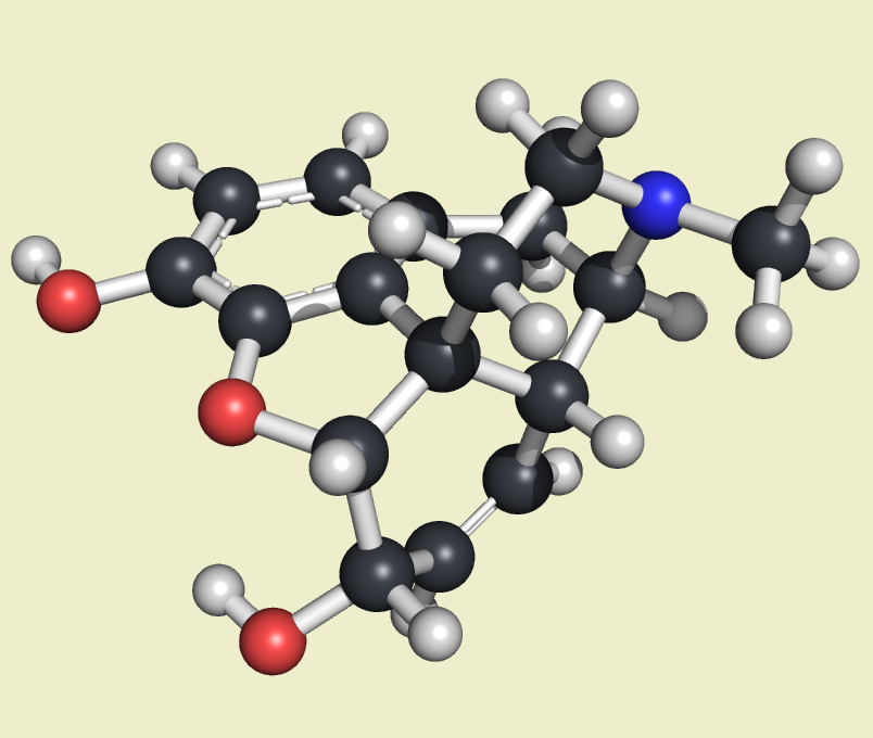 3D structural formula of morphine